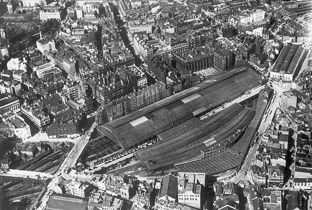 Aerial view of the Victorian station at New Street, Birmingham, UK. The original LNWR station (opened in 1854) with its large arched roof is at the north, while the curved Midland Railway extension (opened 1885) is to the south, the access road in between them is Queen's Drive.